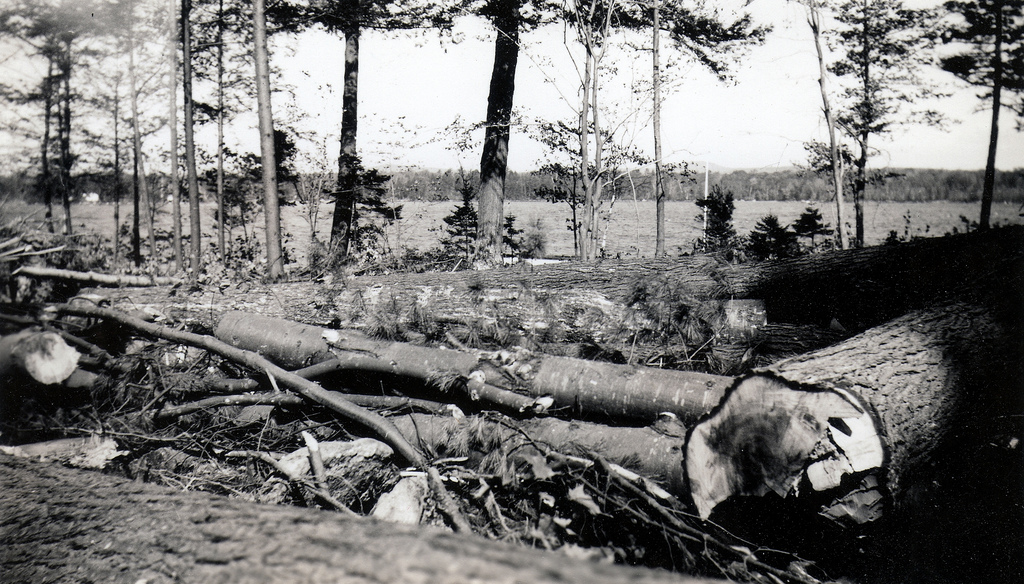 Damage done in Wolfeboro, NH as a result of the New England Hurricane of 1938